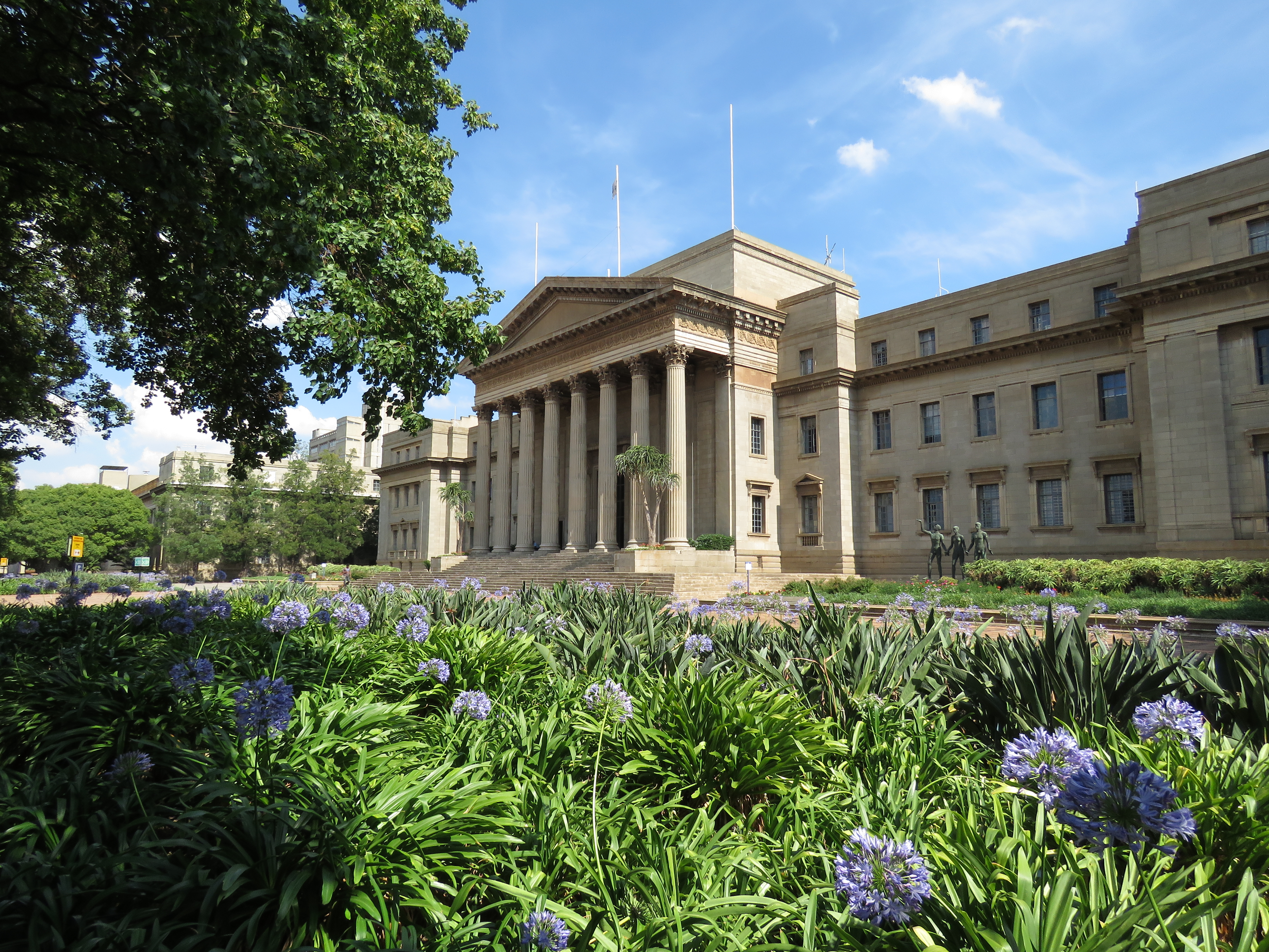 Great Hall of the University of the Witwatersrand in Summer 2016.